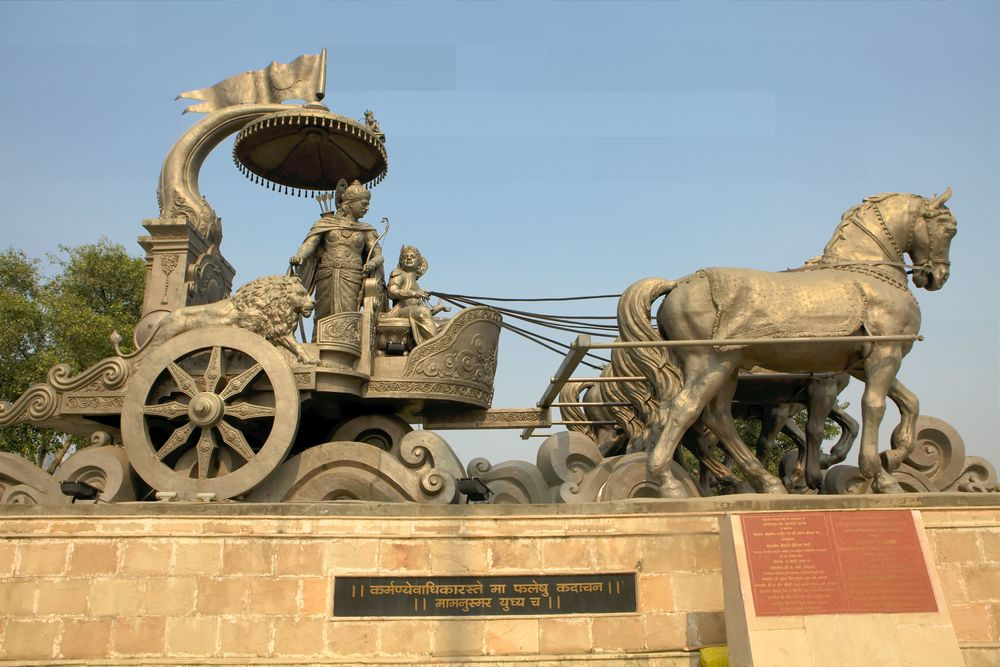 Arjuna is the archer, Krishna the charioteer. This scene iconically symbolizes the Bhagavad Gita - the spiritual discussion between them about war and dharma. This temple sculpture is in Kurukshetra, Haryana India.